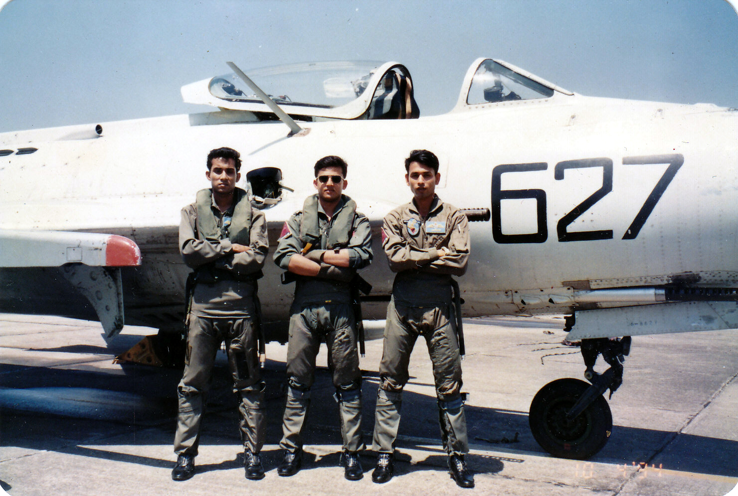 Bangladeshi film star Riaz at Bangladesh Air Force (BAF)